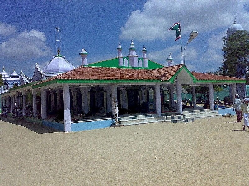 The full view of erwadi main dargah